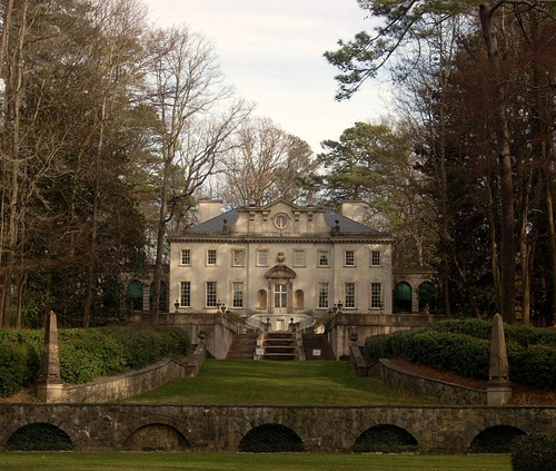 Swan House from the back, Atlanta, Ga.